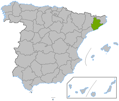 Location of the province of Barcelona, in Spain. Basado en: ProvPont.jpg Source: Designed by Satesclop. Original picture, designed by Sobreira.